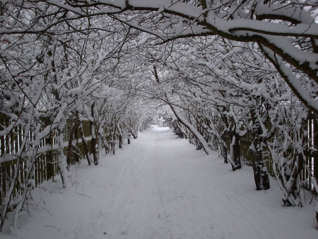 Dukes Head Passage in Bushy Park. Taken after the heavy snow of 2 February 2009